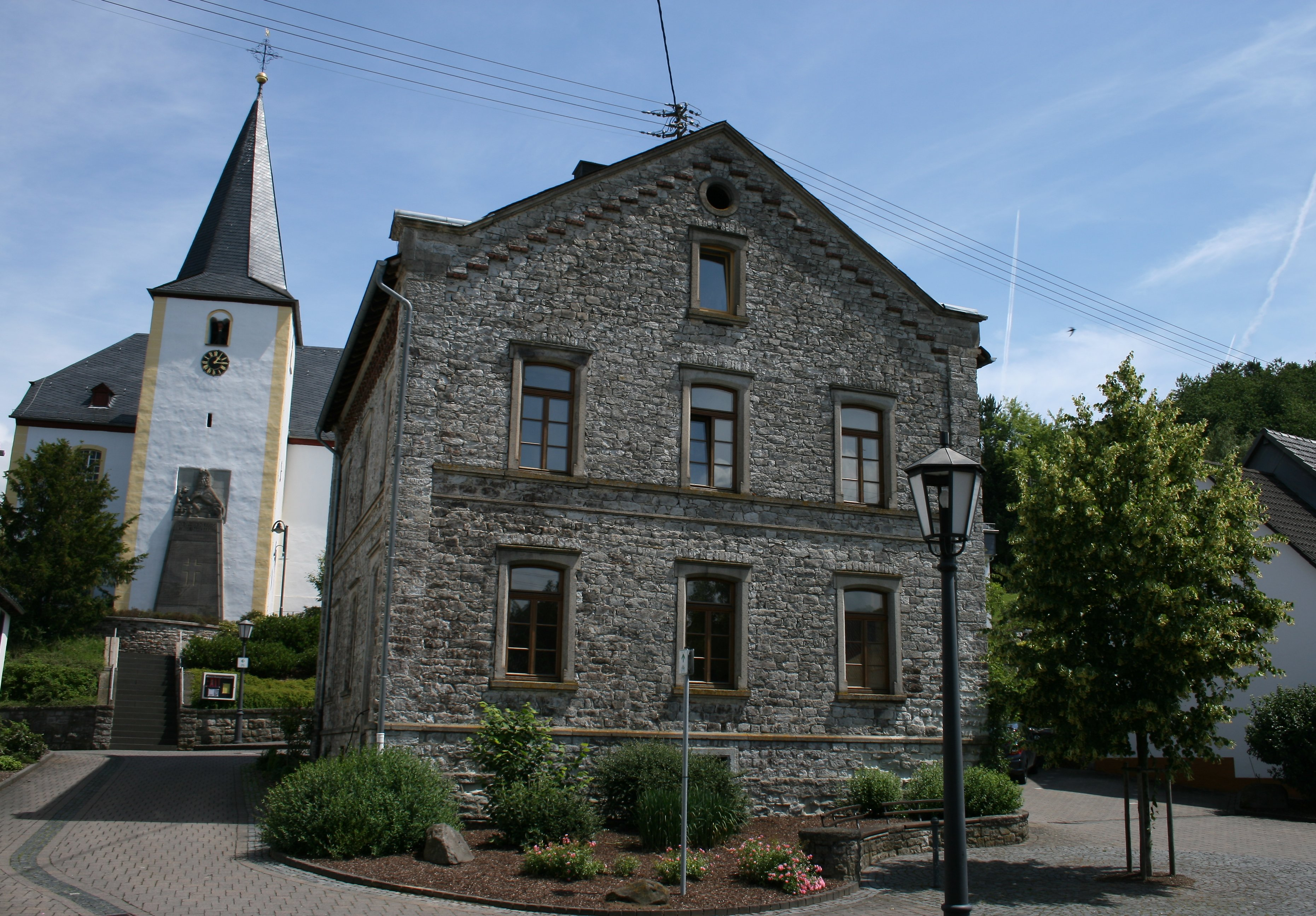 View to the Protestant church and old school building in Maxsain, Westerwald, Germany